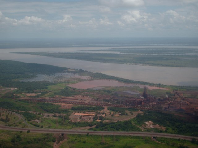 Guayana City industry, background the Orinoco River. Bolívar State. Venezuela.